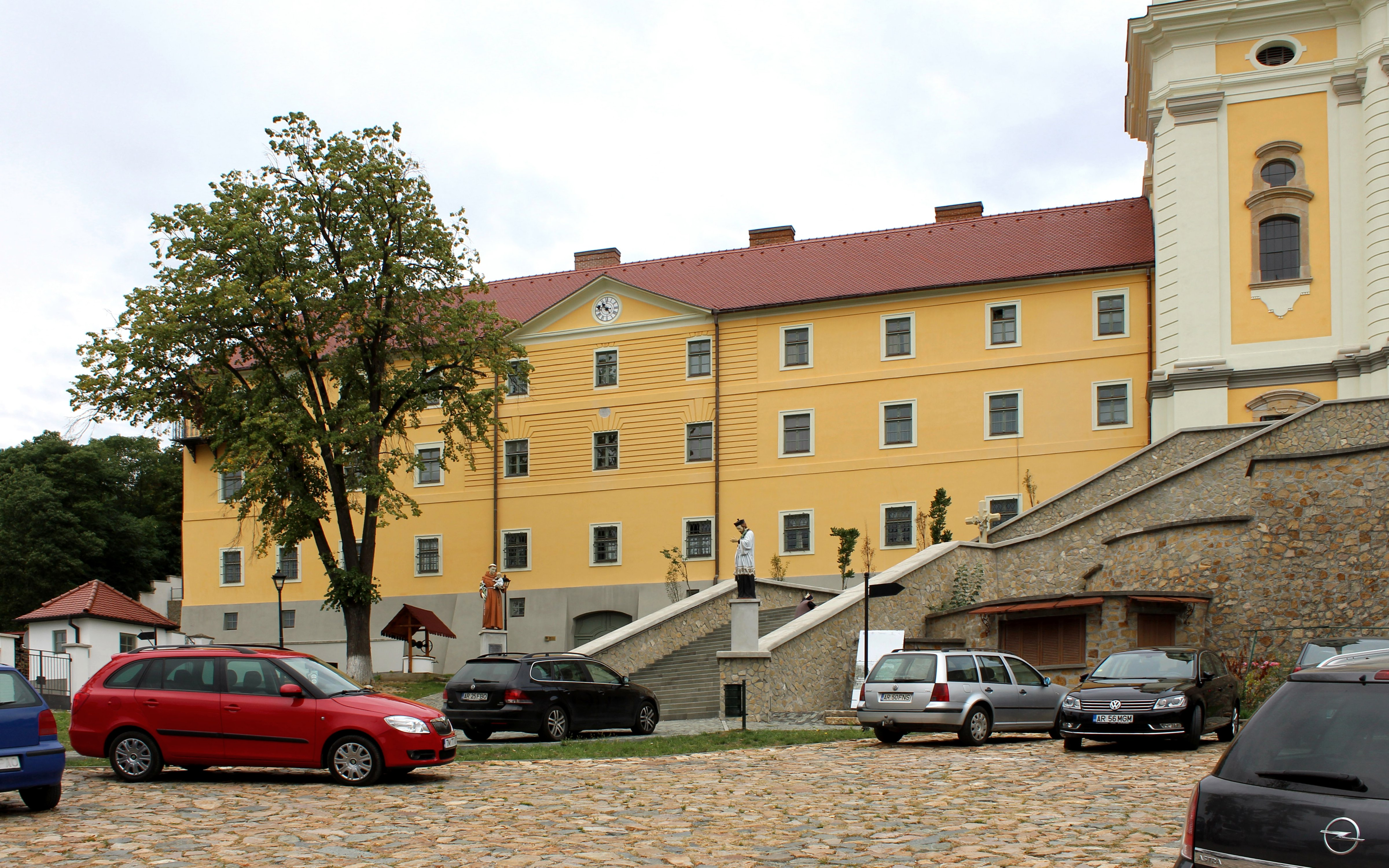 The SE housing of Maria Radna Monastery, Lipova, Romania.